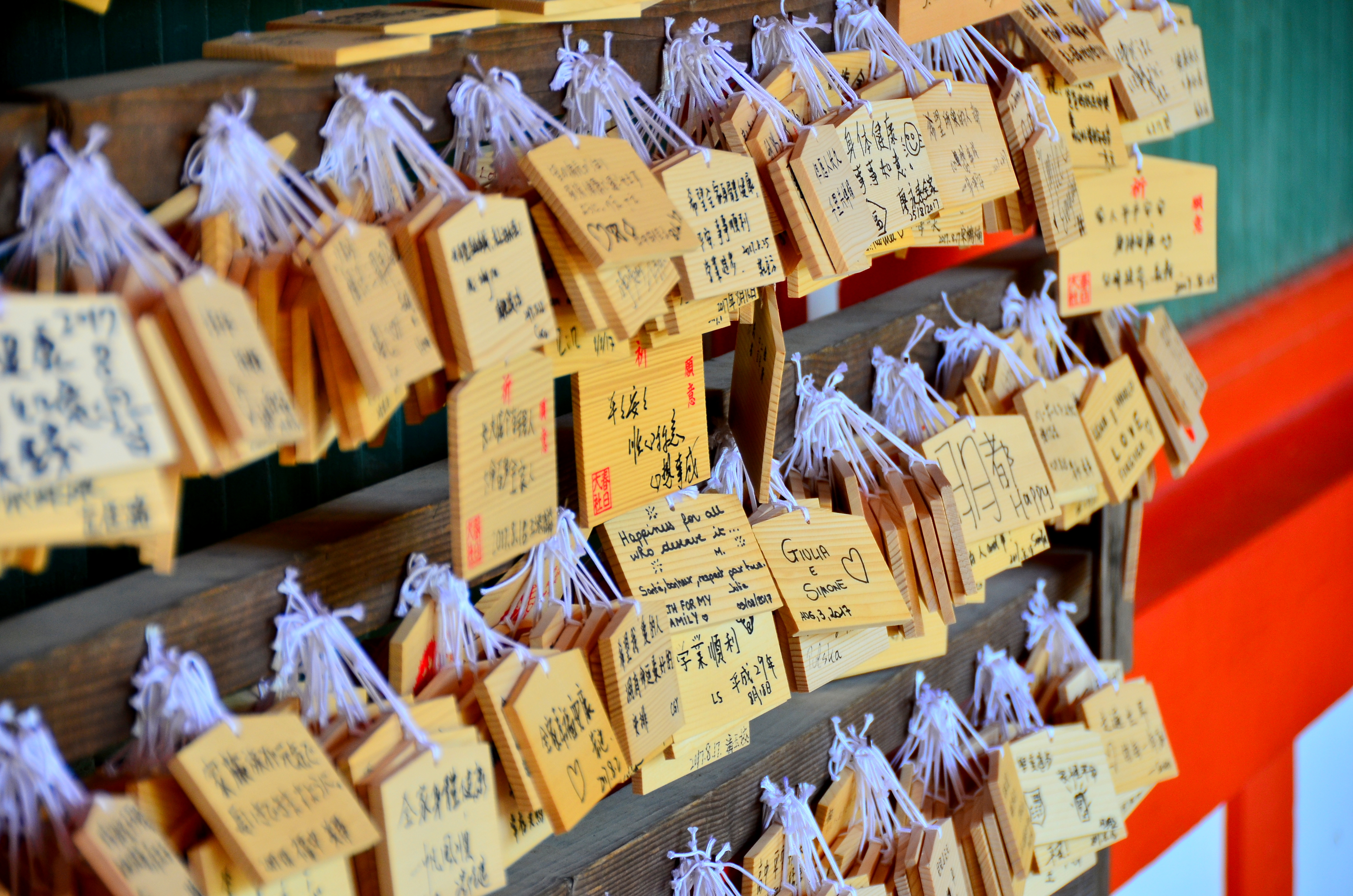 Kasuga-taisha shrine in Nara